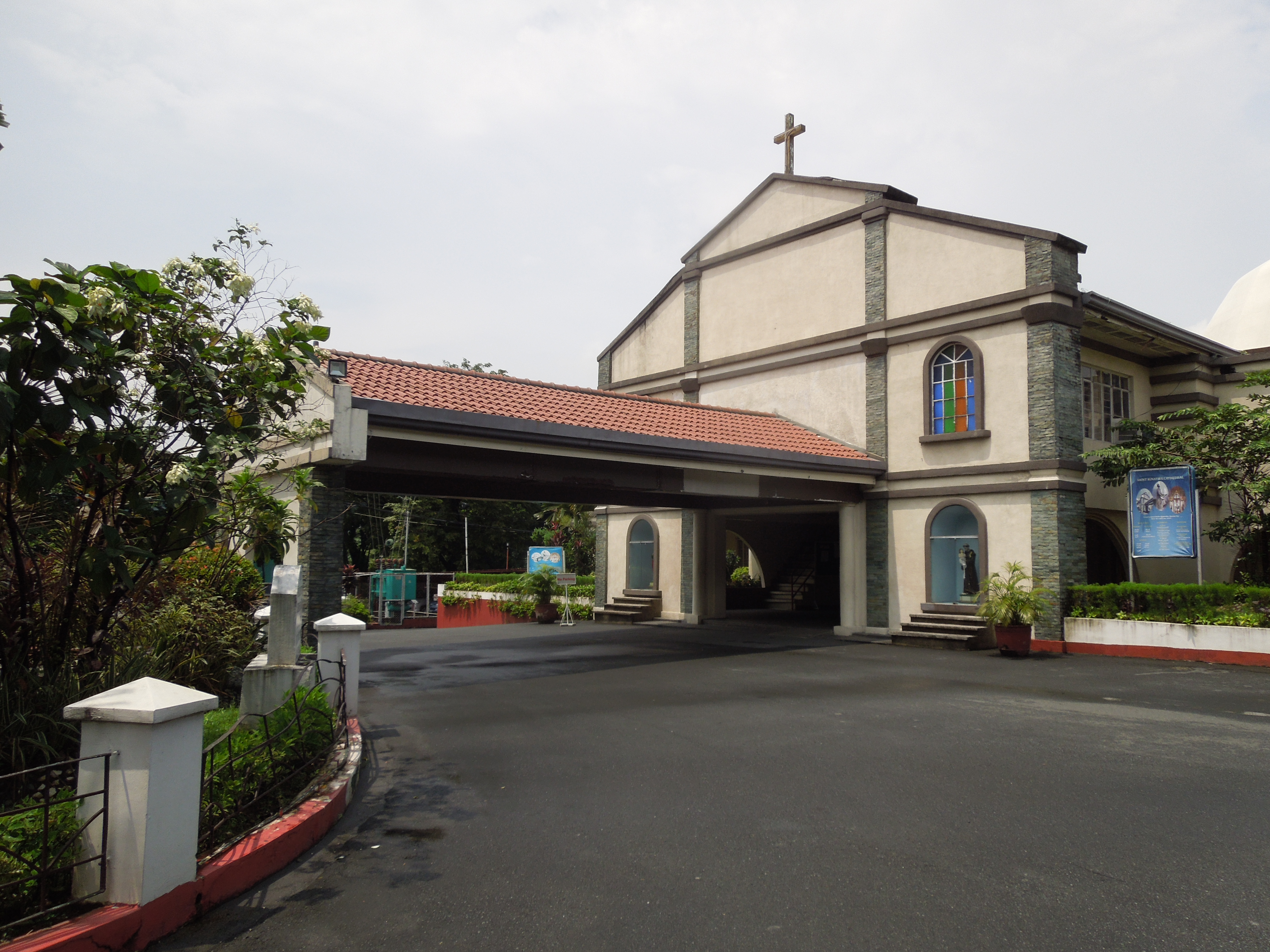 Camp Aguinaldo AFP Museum and Multi-Purpose Theater or Armed Forces of the Philippines Museum List of theaters and concert halls in Metro Manila List of concert halls Camp Aguinaldo Camp General Emilio Aguinaldo (CGEA) General Headquarters Building of the AFP, Quezon City Philippine National Police Arturo Enrile Bulwagang Heneral Arturo T. Enrile Chief of Staff of the Armed Forces of the Philippines St. Ignatius Cathedral (Camp General Emilio Aguinaldo, GQ AFP, Quezon Ciy) Rehabilitated in 1993 under Lisandro C. Abadia completed Inaugurated December 16, 1995 under Arturo Enrile Military Ordinariate of the Philippines in the List of barangays of Metro Manila Legislative districts of Quezon City Districts 3, Barangays of Quezon City, Socorro, Quezon City and Bagong Lipunan ng Crame, District III, Cubao, Quezon City, along Bonny Serrano Avenue corner EDSA (Epifanios de los Santos Avenue) (Note: Judge Florentino Floro, the owner, to repeat, Donor Florentino Floro of all these photos hereby donate gratuitously, freely and unconditionally all these photos to and for Wikimedia Commons, exclusively, for public use of the public domain, and again without any condition whatsoever).